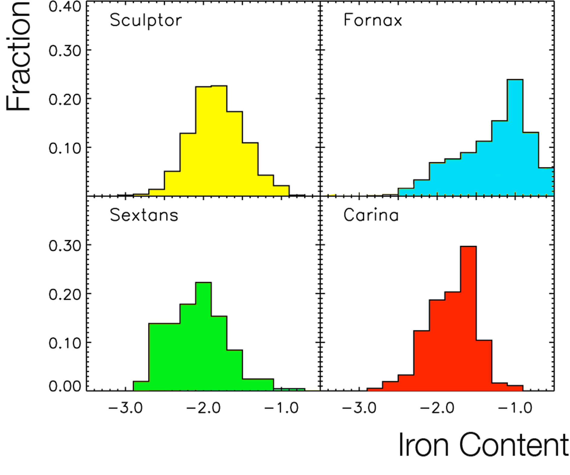 Distribution of the iron content (in logarithmic scale) in four dwarf neighbouring galaxies of the Milky Way (Sculptor, Sextans, Fornax, and Carina), shown as relative fraction, as derived from the FLAMES/VLT observations. There is a great diversity from system to system, which reflects their widely different star formation and chemical enrichment histories. There is, however, a common denominator: contrary to naive expectations, there is a dearth of stars with very low amount of iron.